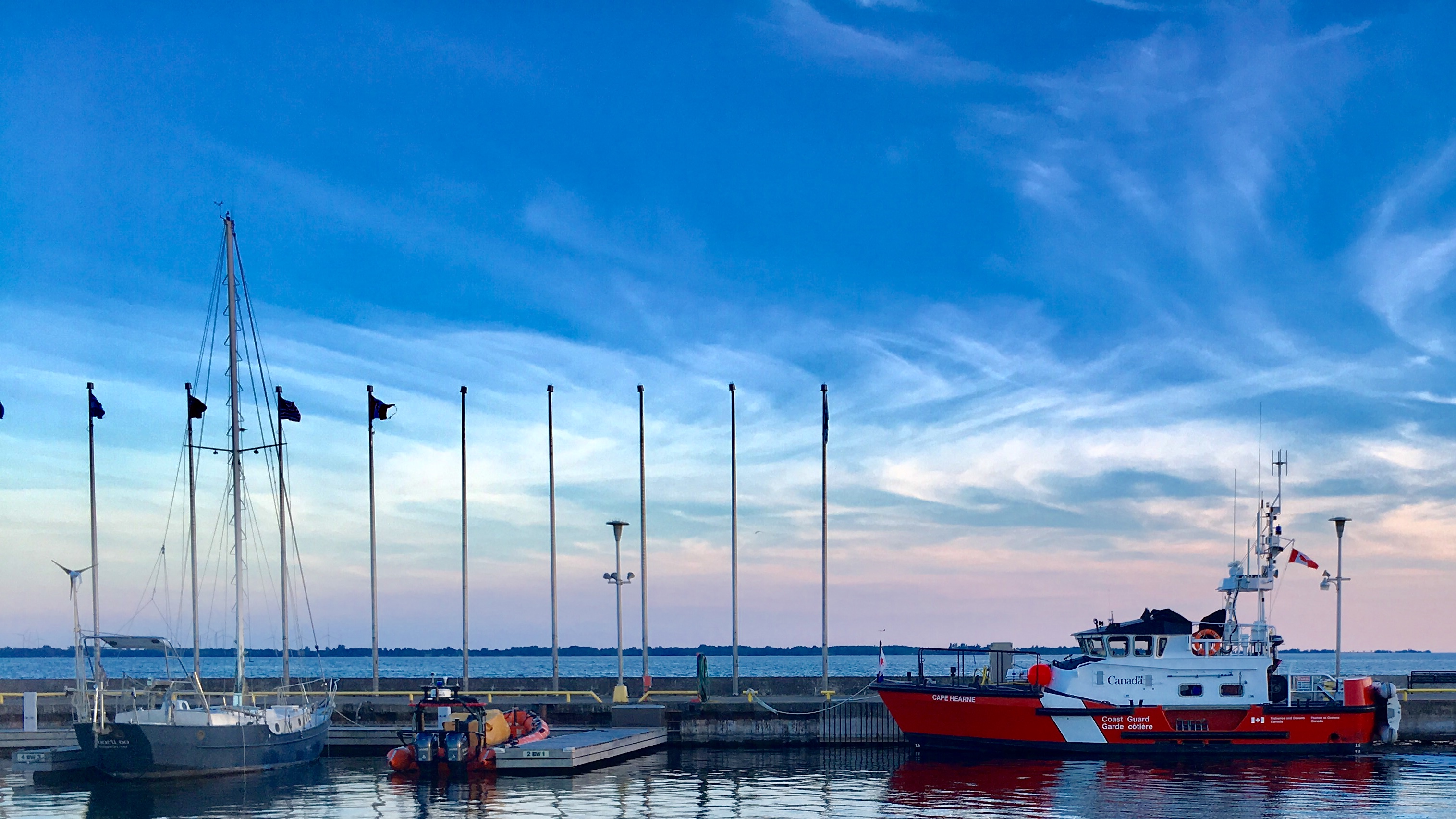 Canadian Coast Guard Ship (CCGS) Cape Hearne at port in Portsmouth Olympic Harbour in Kingston, Ontario, Canada on the shores of Lake Ontario where the Great Lakes end and the St. Lawrence Seaway begins.